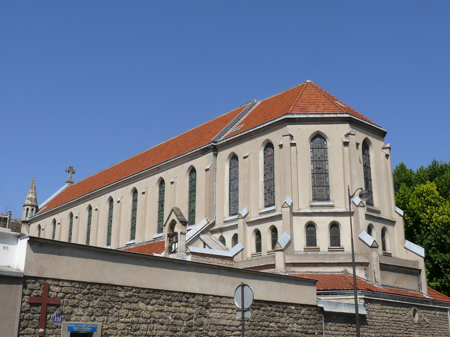 Saint-Joseph-Artisan's church in Paris (Paris X, France)